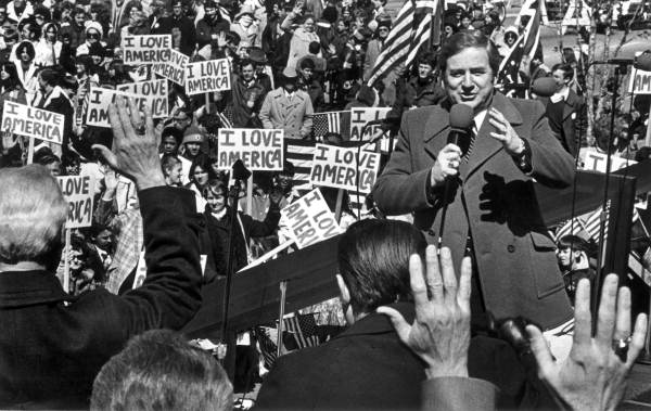 Accompanying note "Dr. Jerry Falwell, from Lynchburg, Virginia, acknowledges ministers in the audience here Monday as some 1,000 gathered on the steps of the capitol for an "I Love America Rally". Falwell will be taking the program to all 50 state captials in an effort to revive the spirit of America under God and promote a moral rebirth at the seats of government in each state."